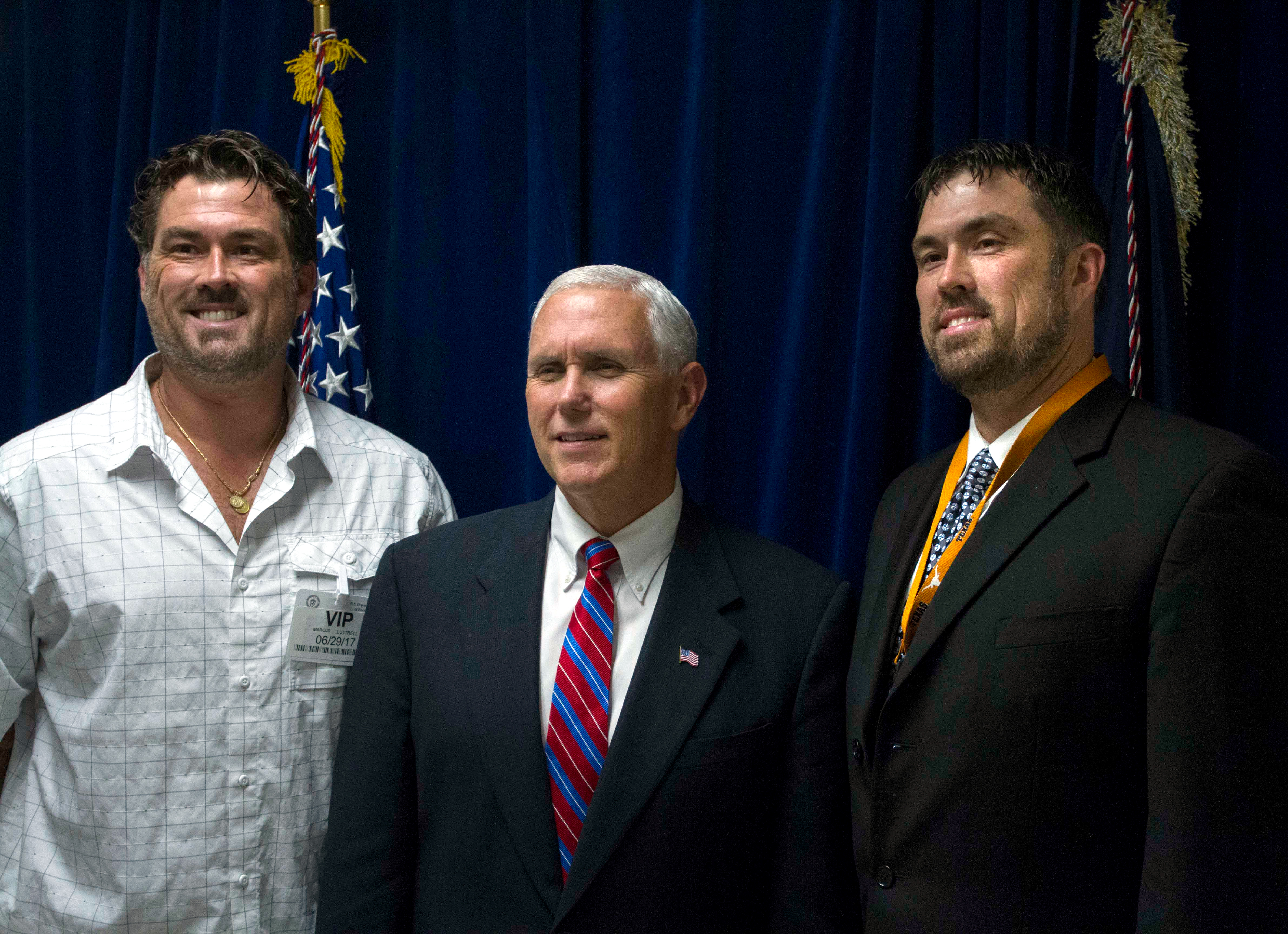 Marcus Luttrell (left) and Morgan Luttrell with Vice President Mike Pence backstage at the Unleashing American Energy Event at Energy Department Headquarters in Washington D.C. June 29, 2017 Photo Simon Edelman, Energy Department